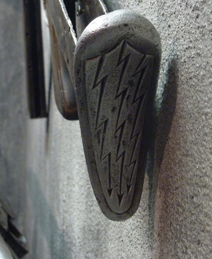 A photo of the Blyskawica submachine gun shoulder rest. Blyskawica literally means Lightning or Flasher and hence the art.